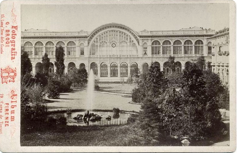 Giacomo Brogi (1822-1881), "Turin - The Train station and the garden". Catalogue # 3072.